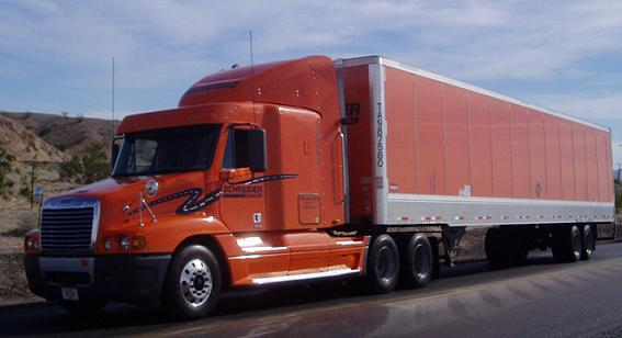 Schneider National Carriers 2006 Freightliner Century Class Midroof 2007 53' Wabash DuraPlate® HD Tractor is used on a regional dedicated account. This is a scene from US-95 near the Arizona - California border. Photo by: J. Bohannon